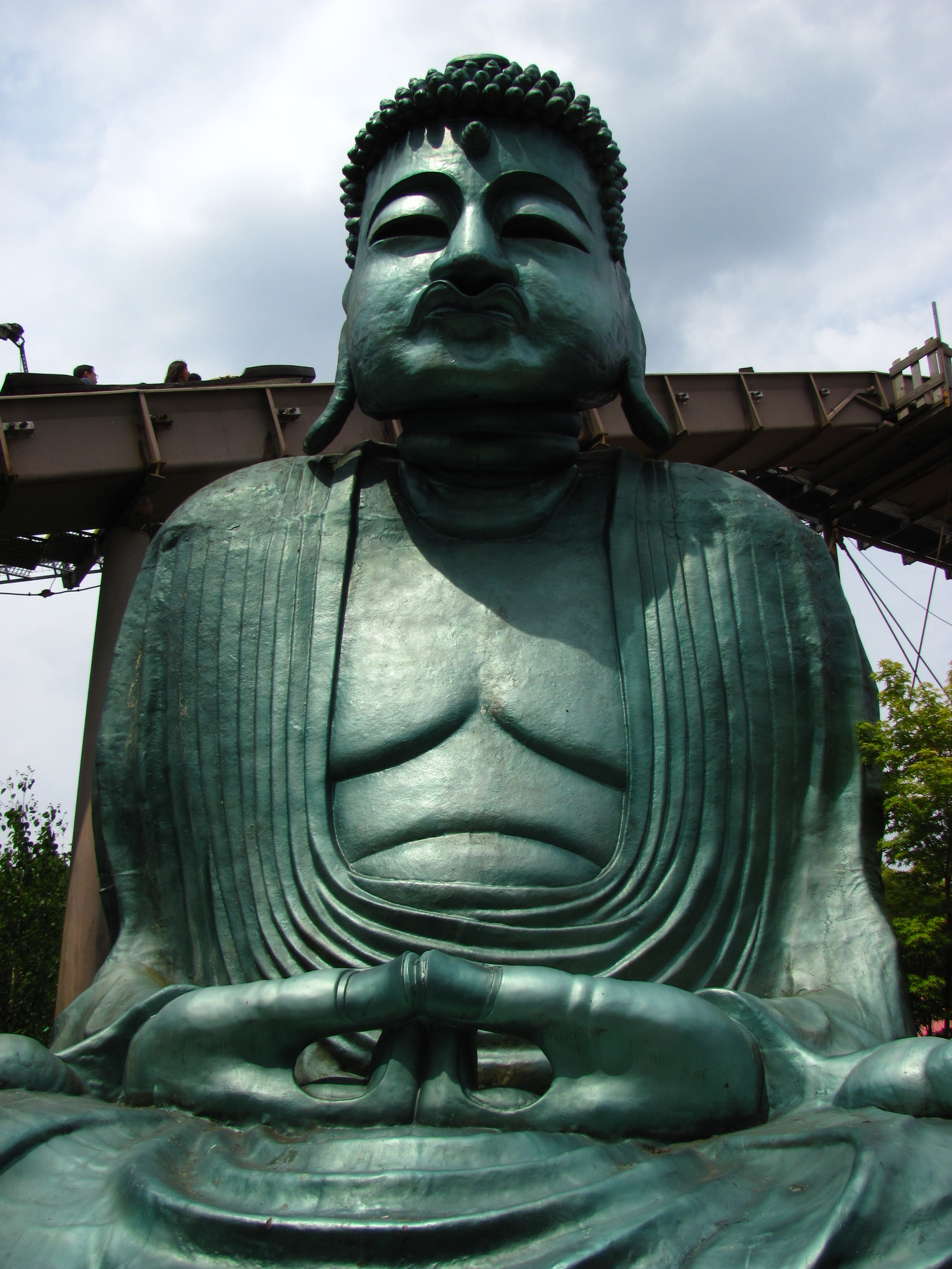 Chessington World of Adventures Mystic East Buddha